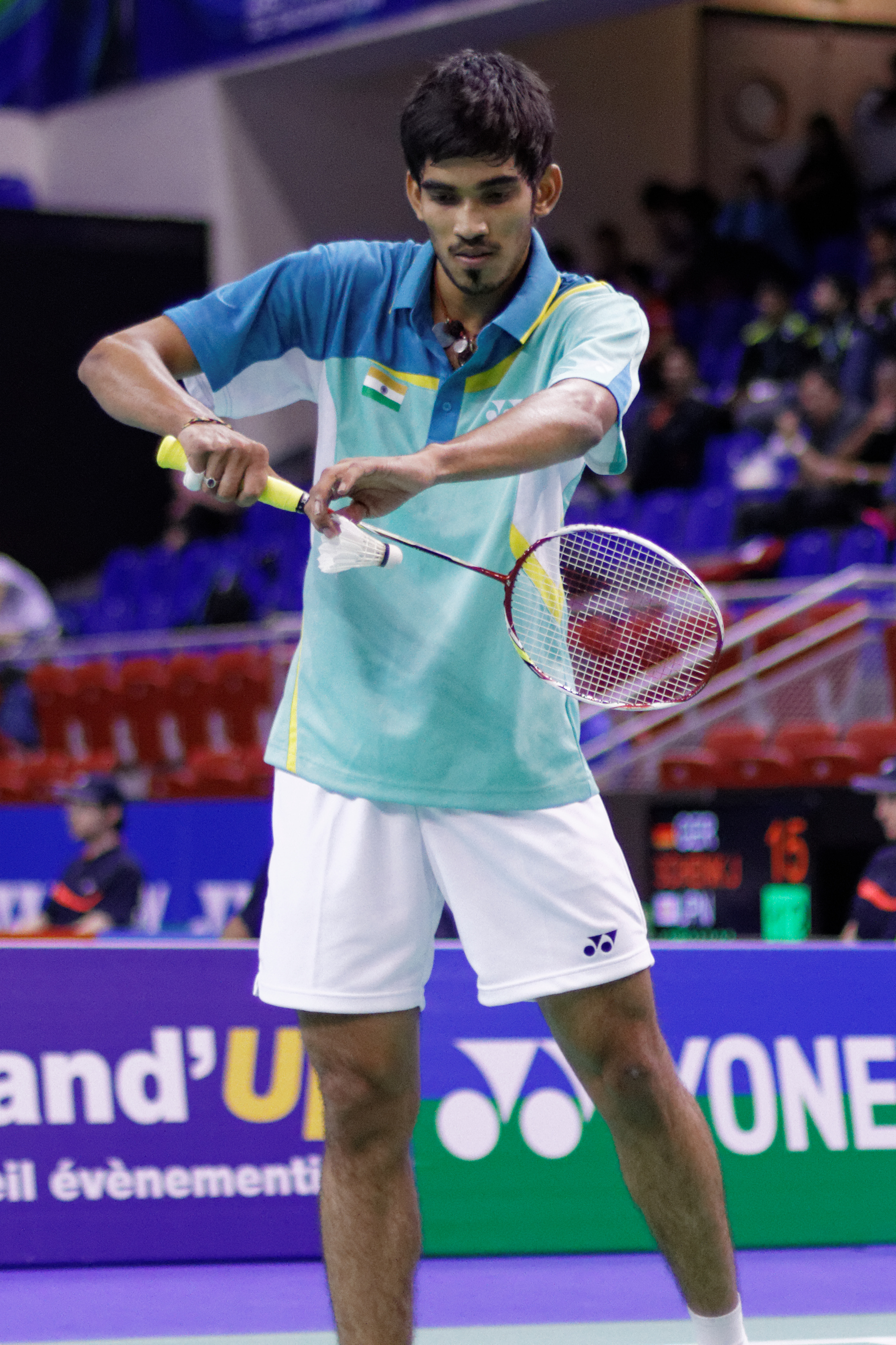 2013 French open. Men's singles eightfinal. Boonsak Ponsana vs K. Srikanth.